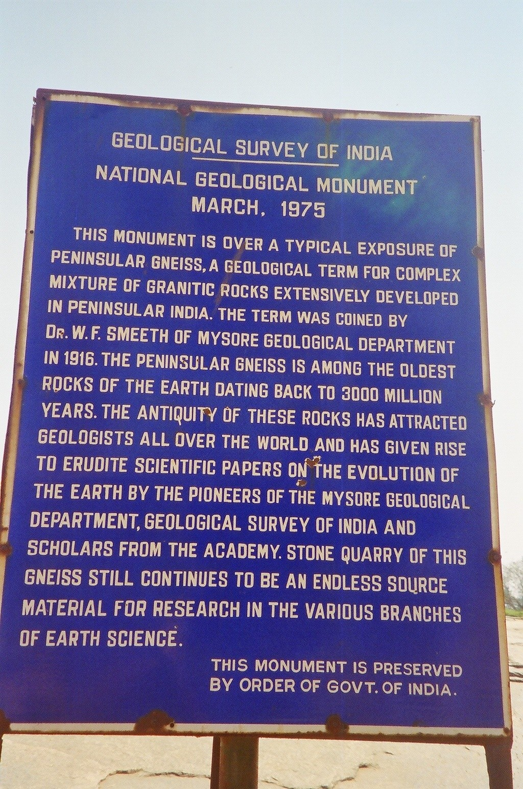 A Plaque describing the Pensisuslar Gneiss monument at Lalbagh in Bangalore